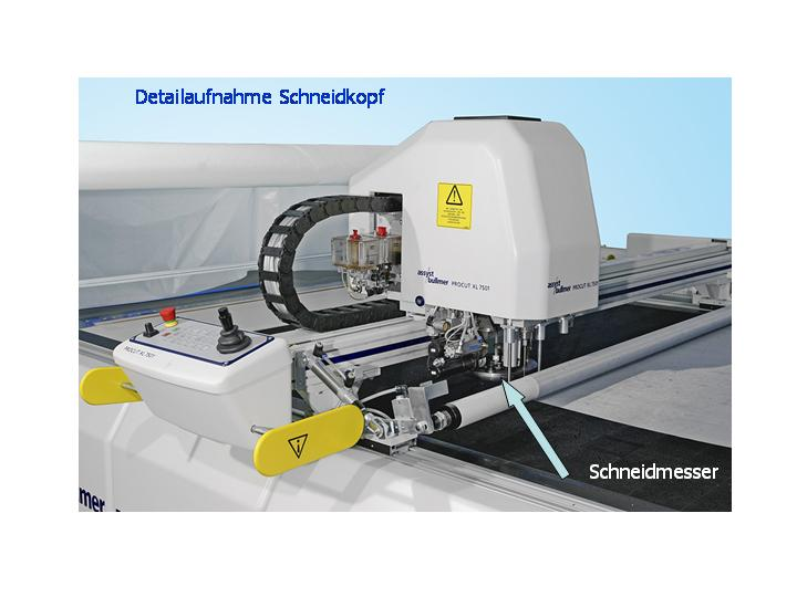 Tool head of automatic NC-controlled cutting machine for textile materials